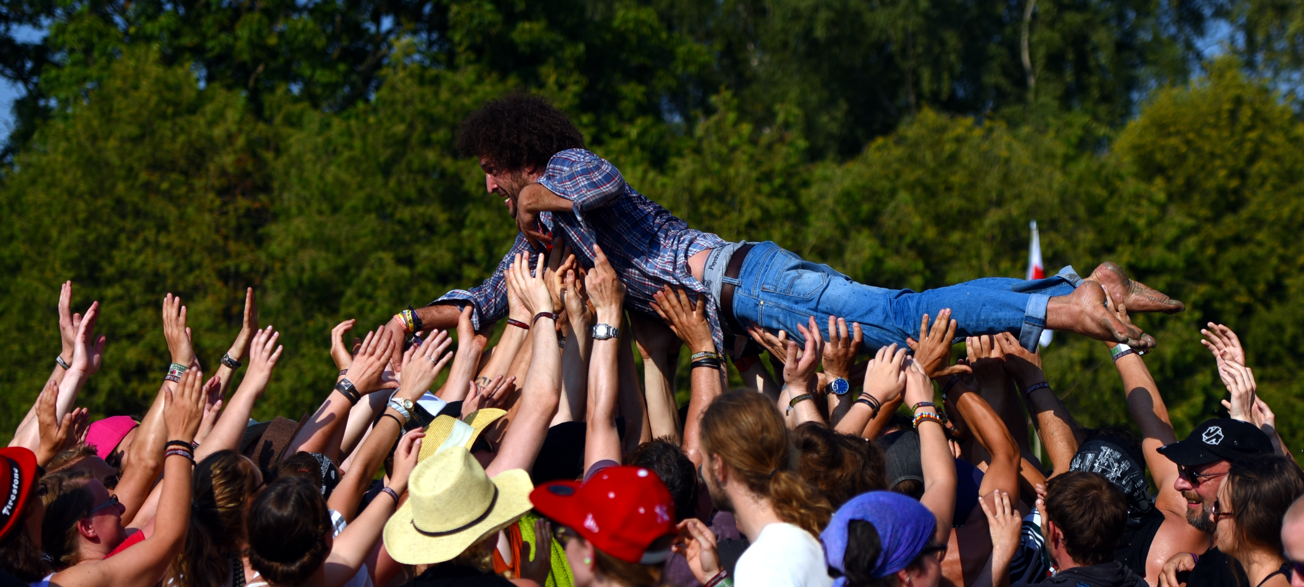 Andy Frasco & the U.N. at the Open Flair festival in Eschwege, Germany